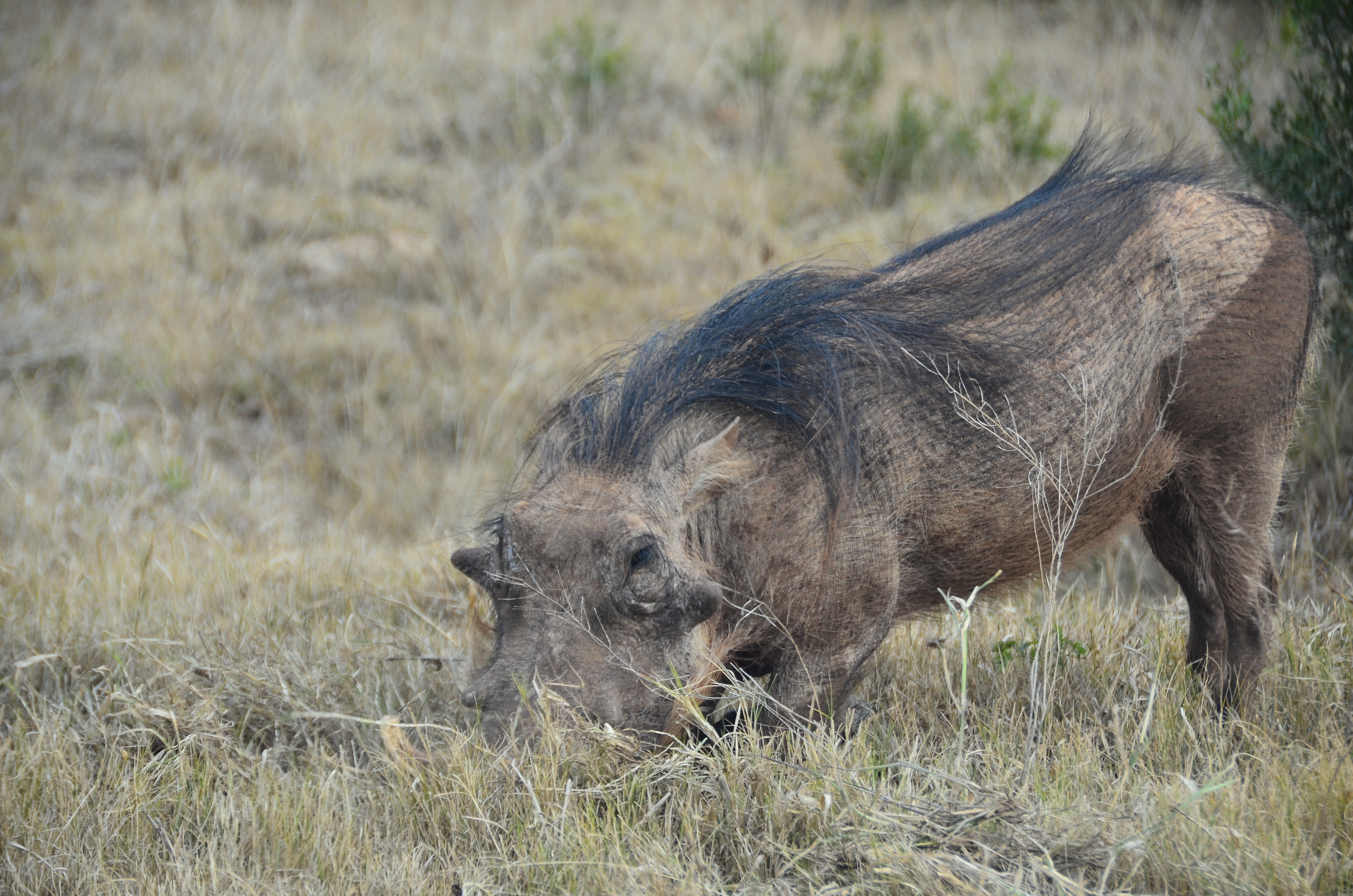 African warthog in Addo (South Africa)